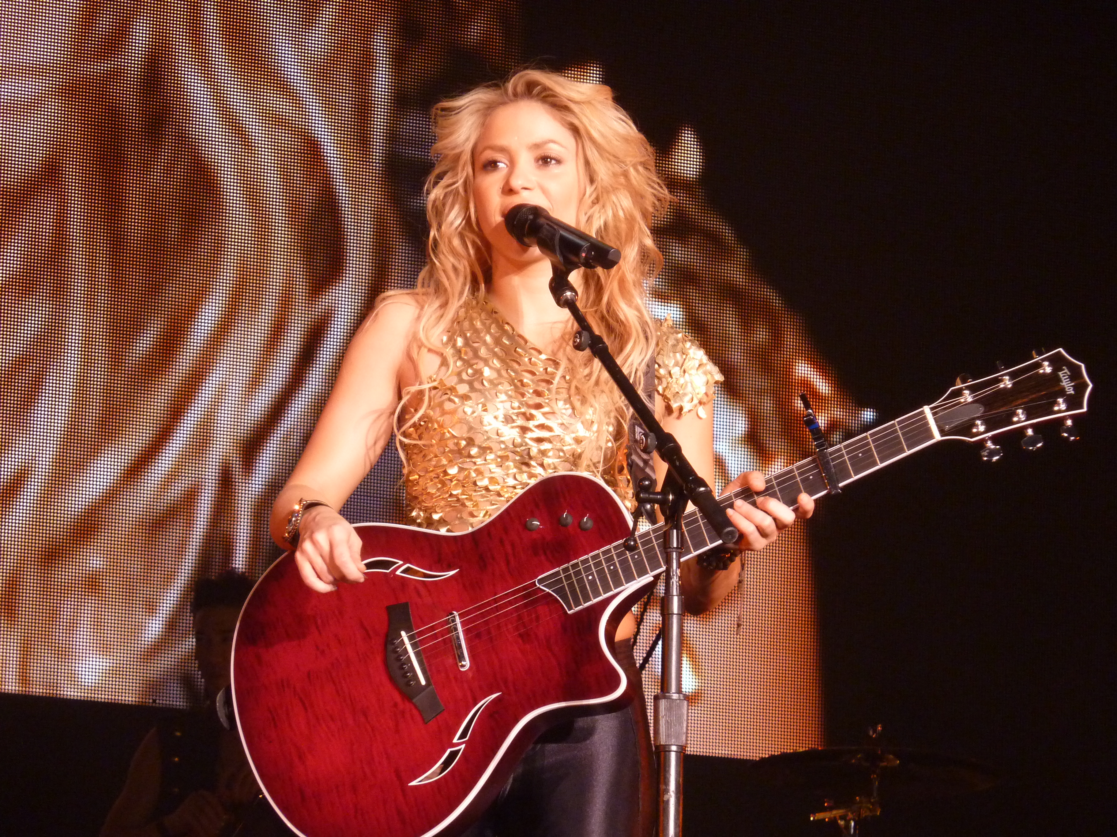 Shakira in concert in Palais Omnisports de Paris-Bercy, Paris in 2010.